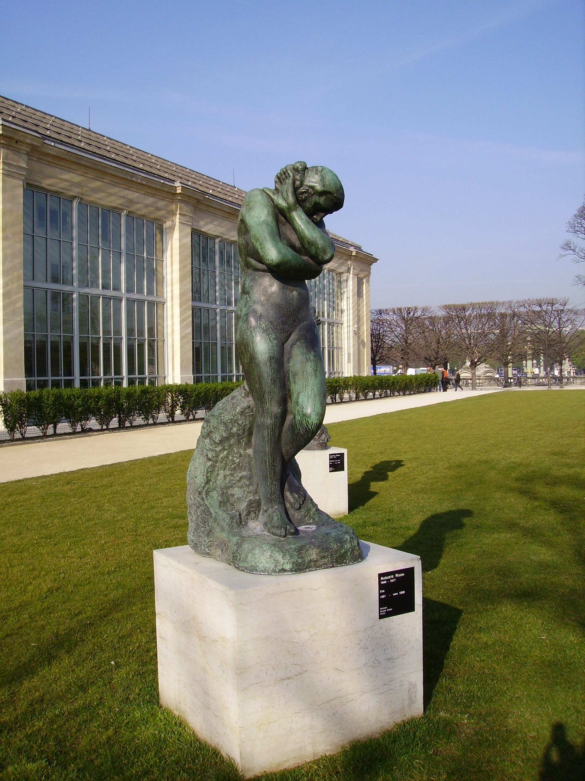 Eve by Auguste Rodin in front of Orangerie museum, Paris